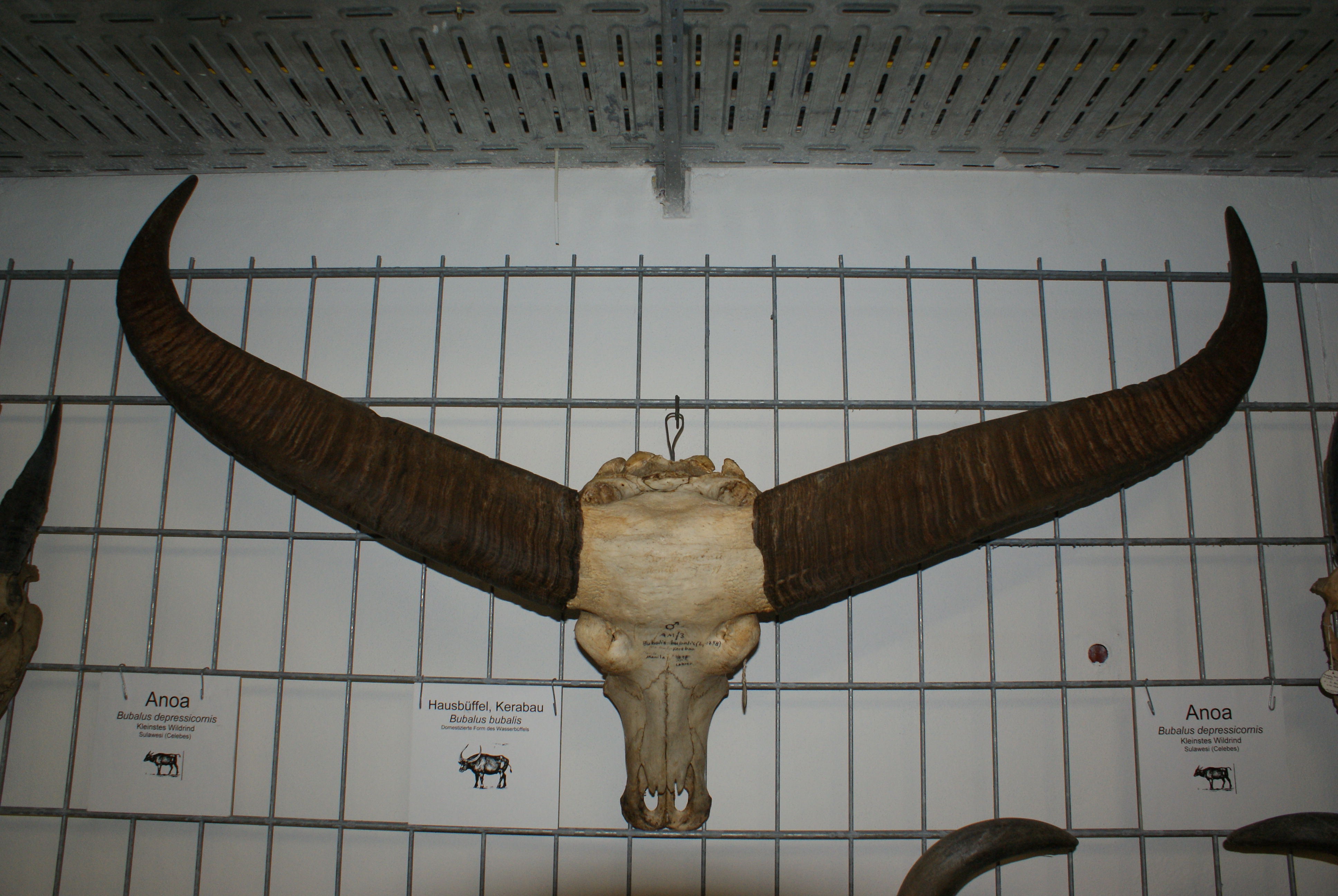 Skull of a Bubalus arnee (Water Buffalo), here still declared as a Bubalus bubalis (House Buffalo). Made in the Zoologische_Staatssammlung_München while visiting with the Wikipediastammtisch München.